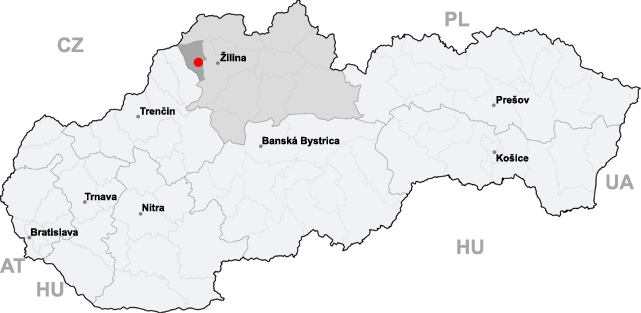 map of Slovakia, city of Bytča highlighted